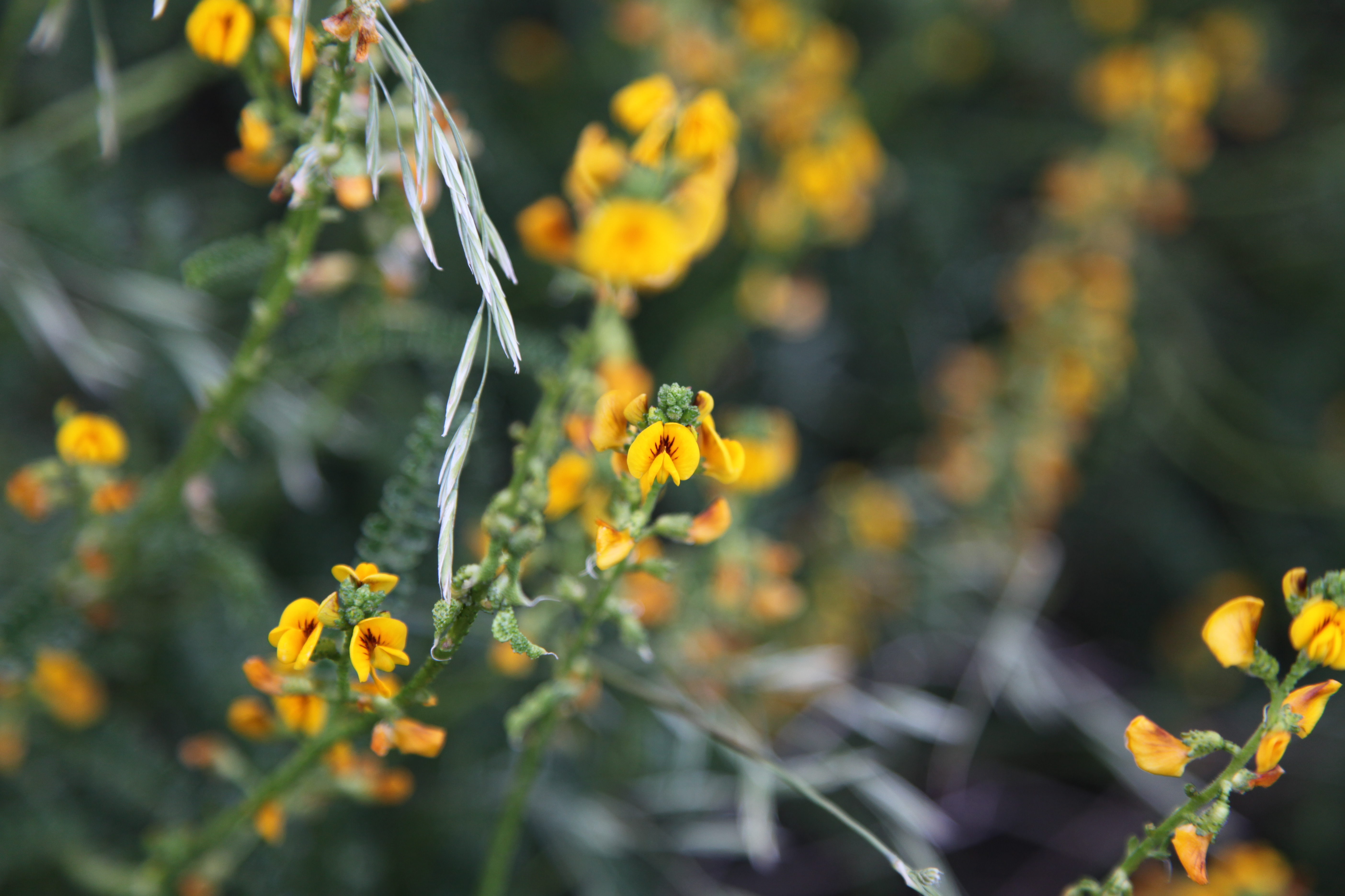 Photographed near El Chaltén, Argentina.